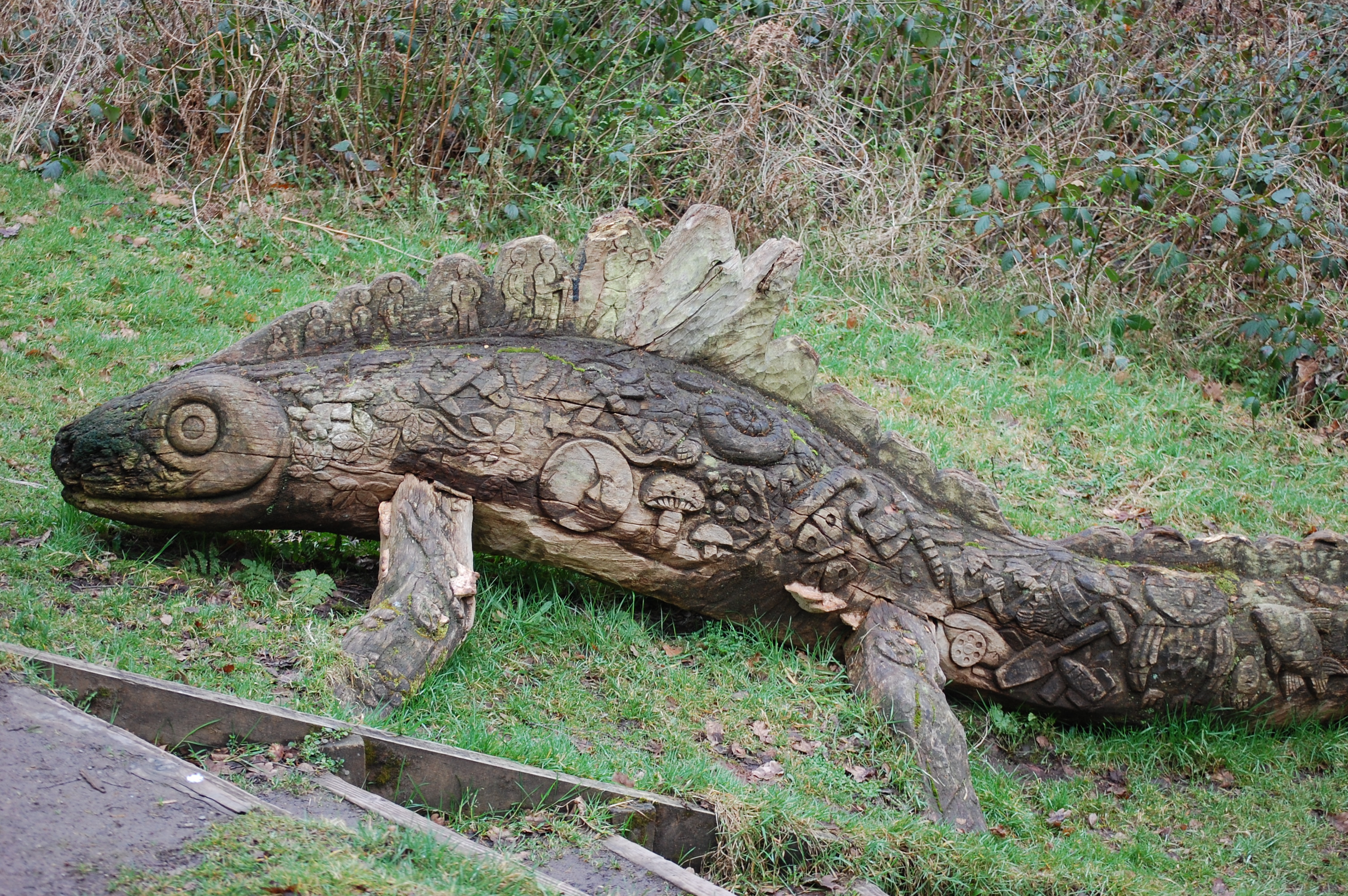 Carved Wooden Sculpture of a Lizard found at Risey Moss, Birchwood, Warrington, Cheshire, United Kingdom